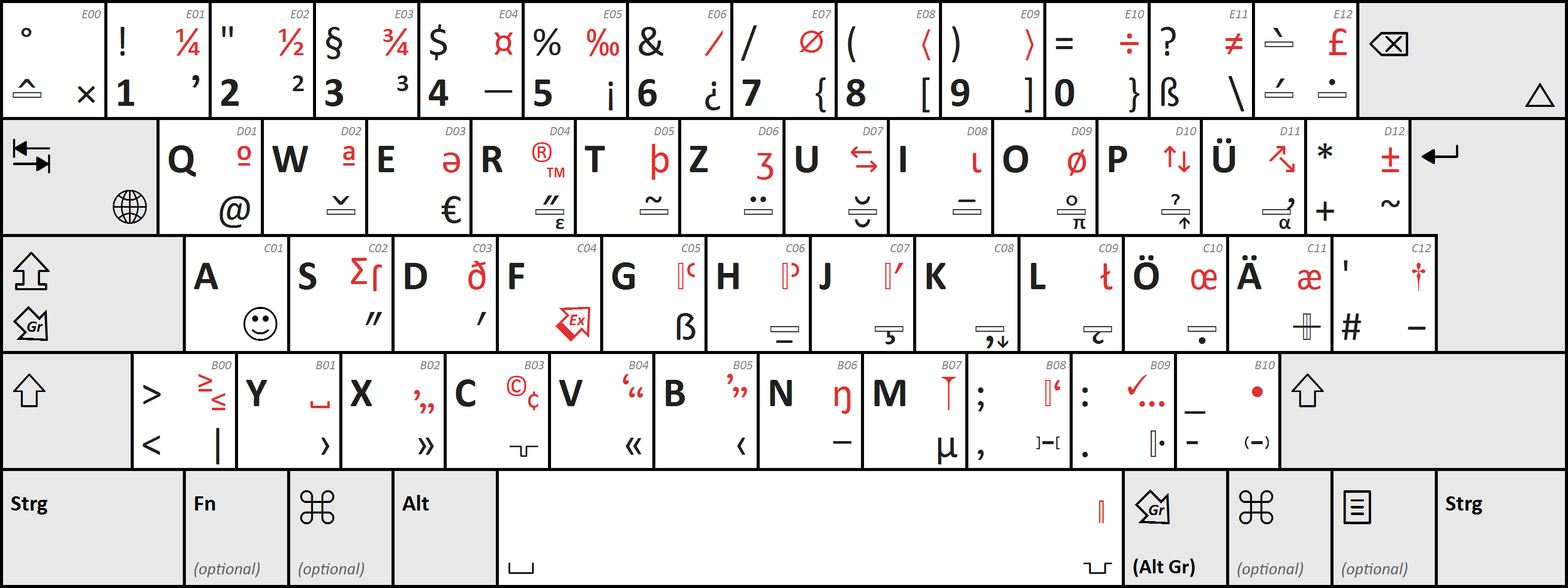 German keyboard layout E1 according to DIN 2137-01:2018-12, showing the Shift Lock symbol instead of the Caps Lock symbol